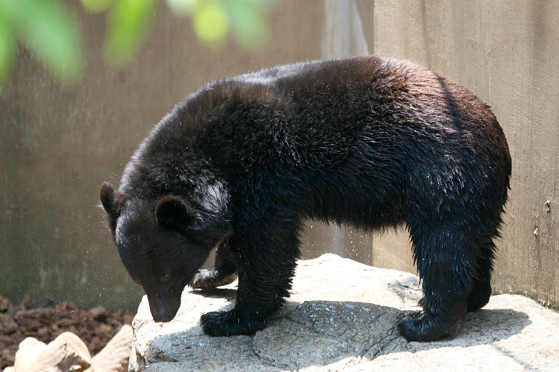 Japanese black bear shaking water off its fur